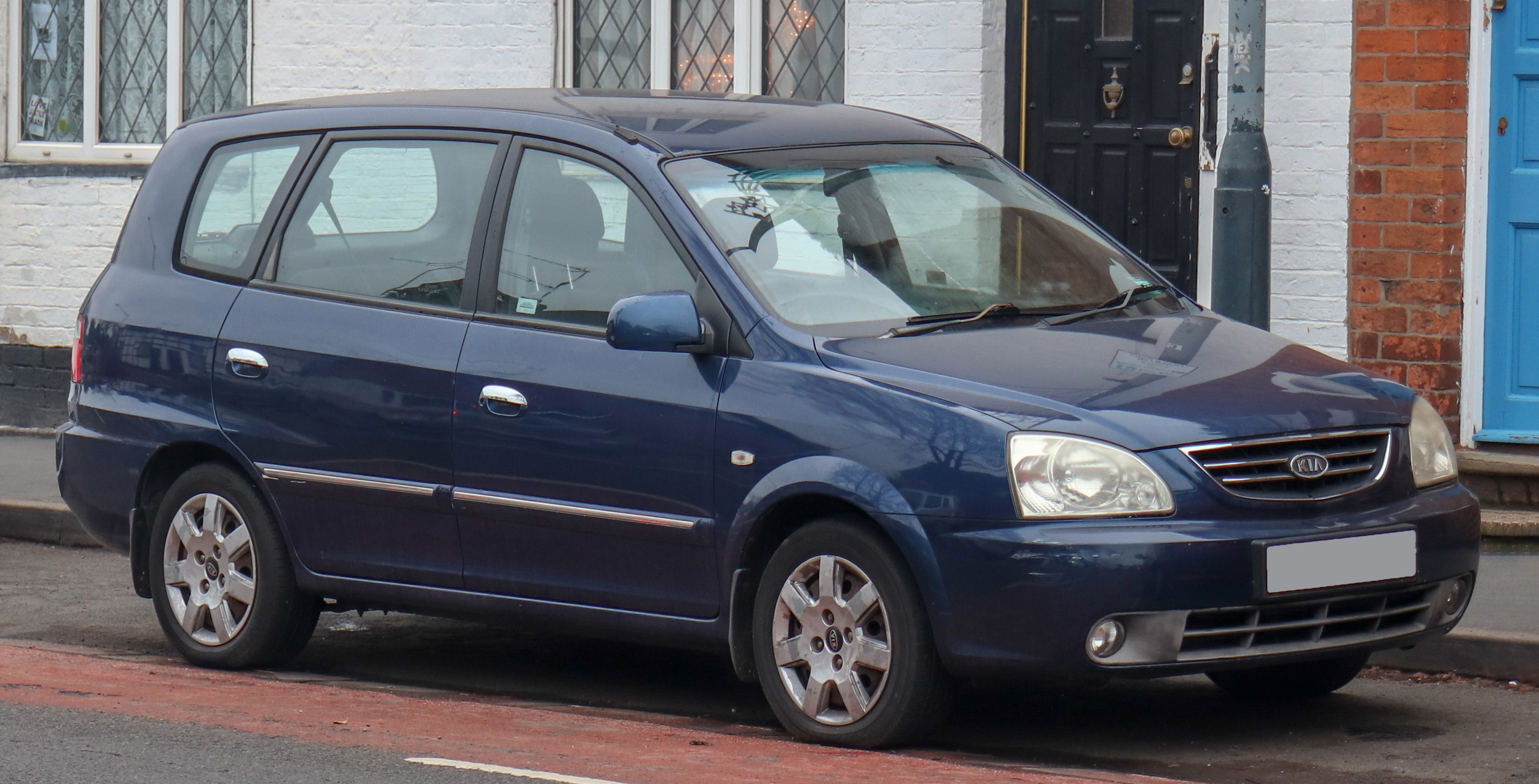 2003 Kia Carens LX 1.8 Front